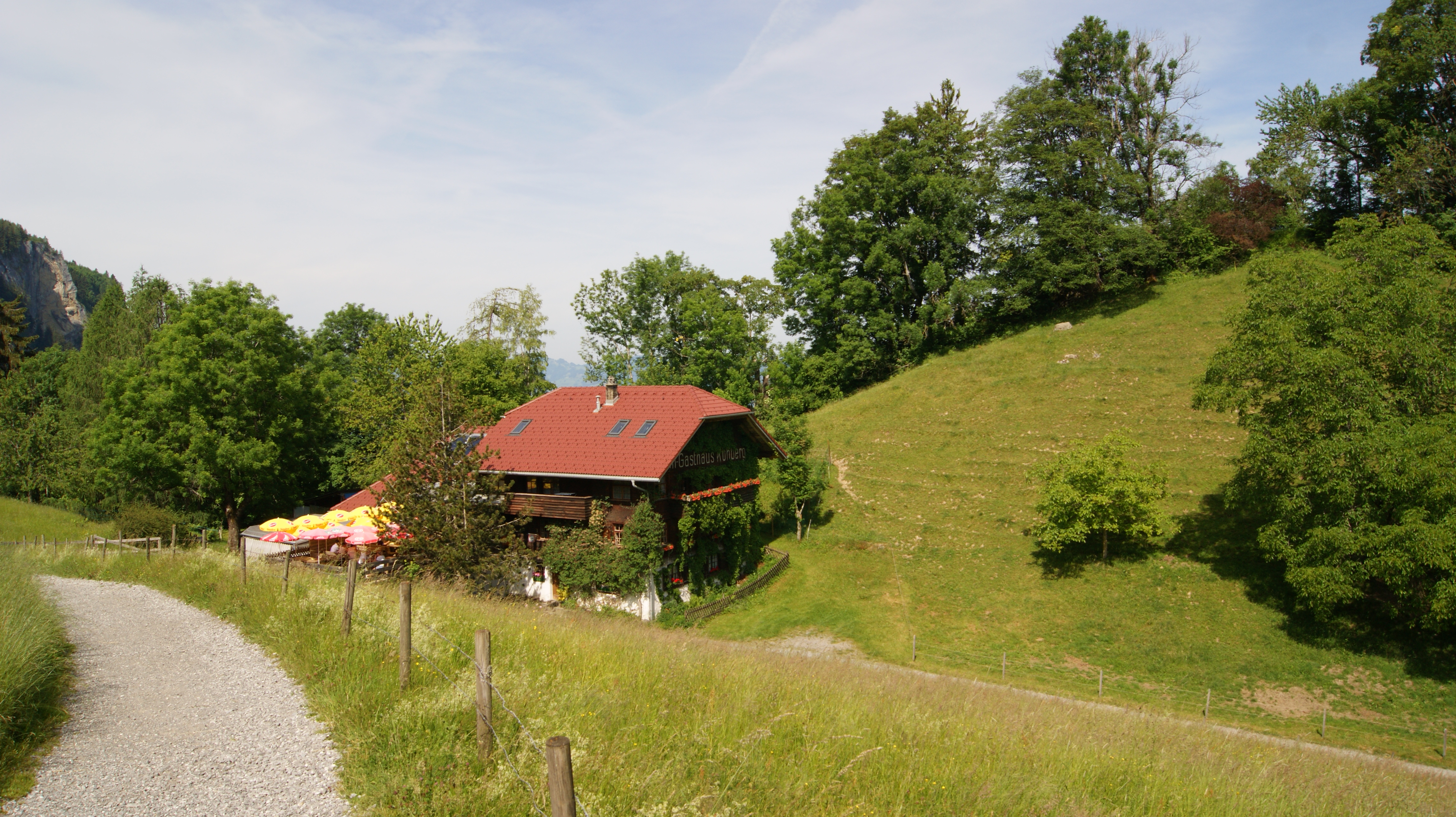 Inn Kuehberg on the Kuehberg in Dornbirn, Vorarlberg, Austria.